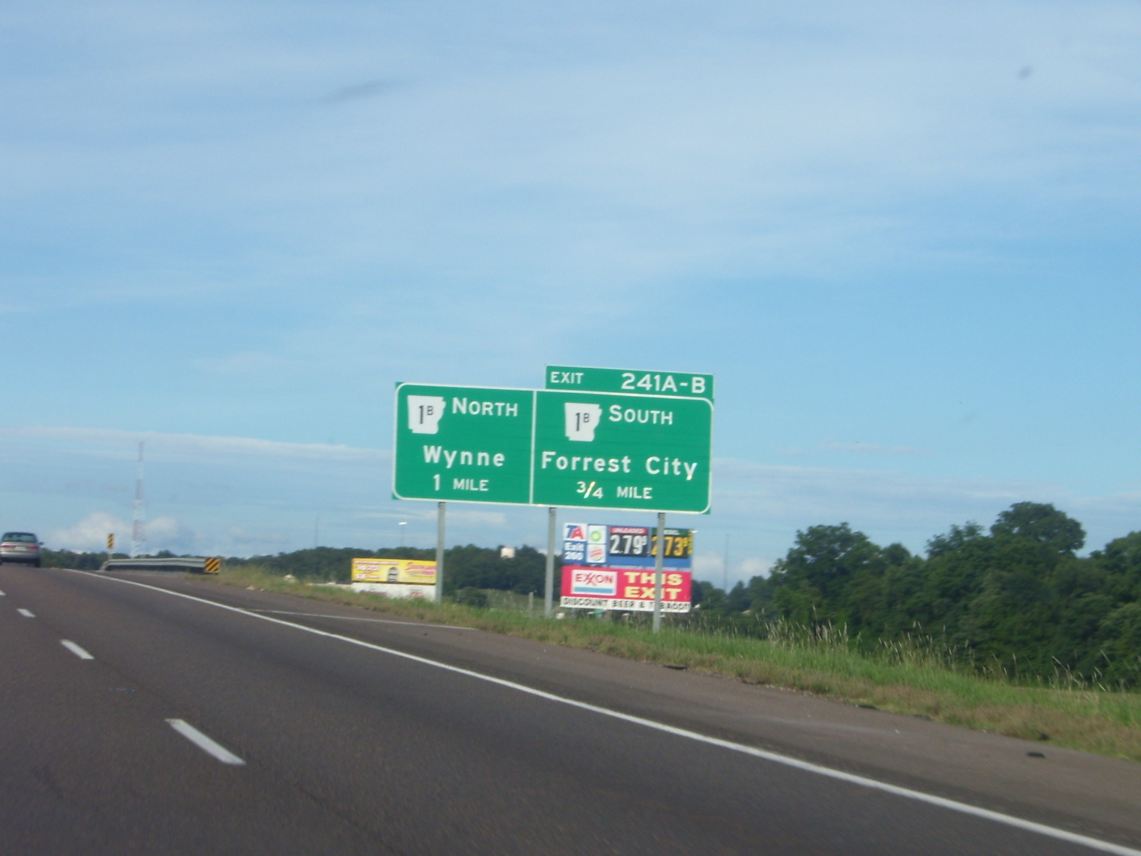 Combo signage for I-40 Exits 241A and B, near Wynne and Forrest City, Ark.